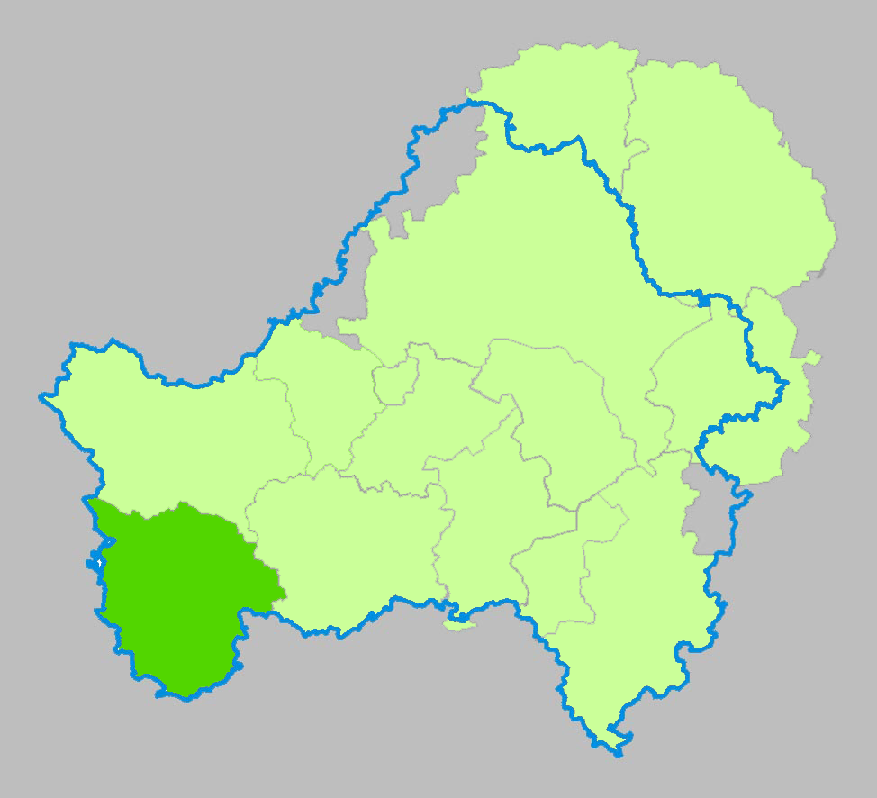 Novozybkovsky uezd location on the map of Bryansk gubernia